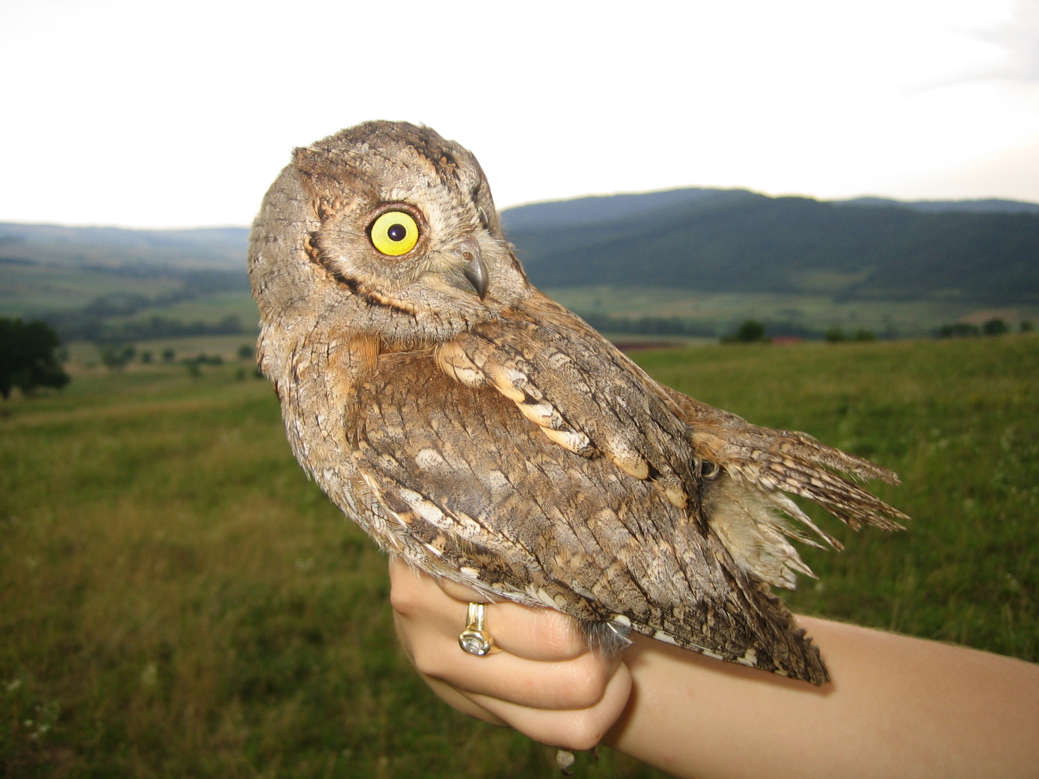 Otus scops